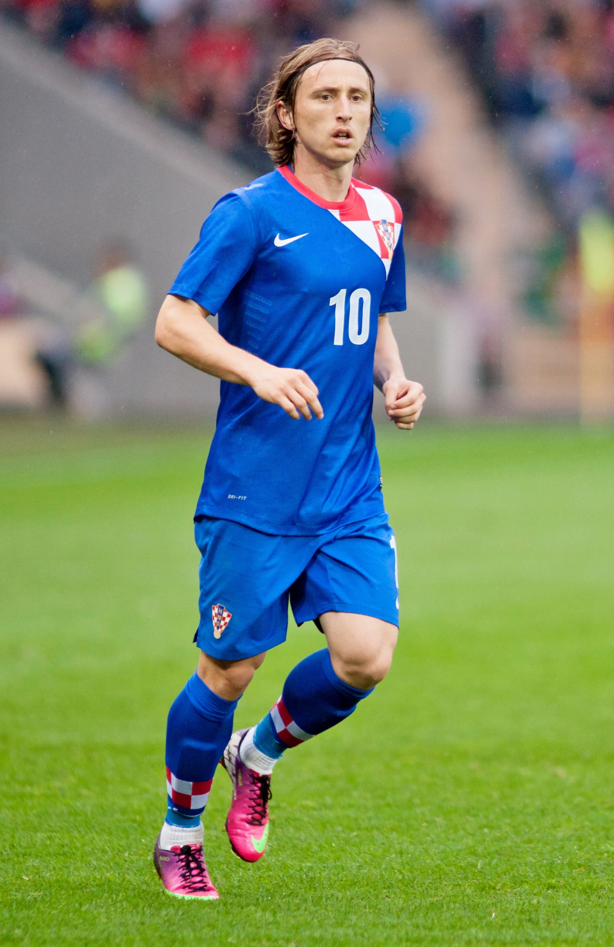 Croatia vs. Portugal, 10th June 2013